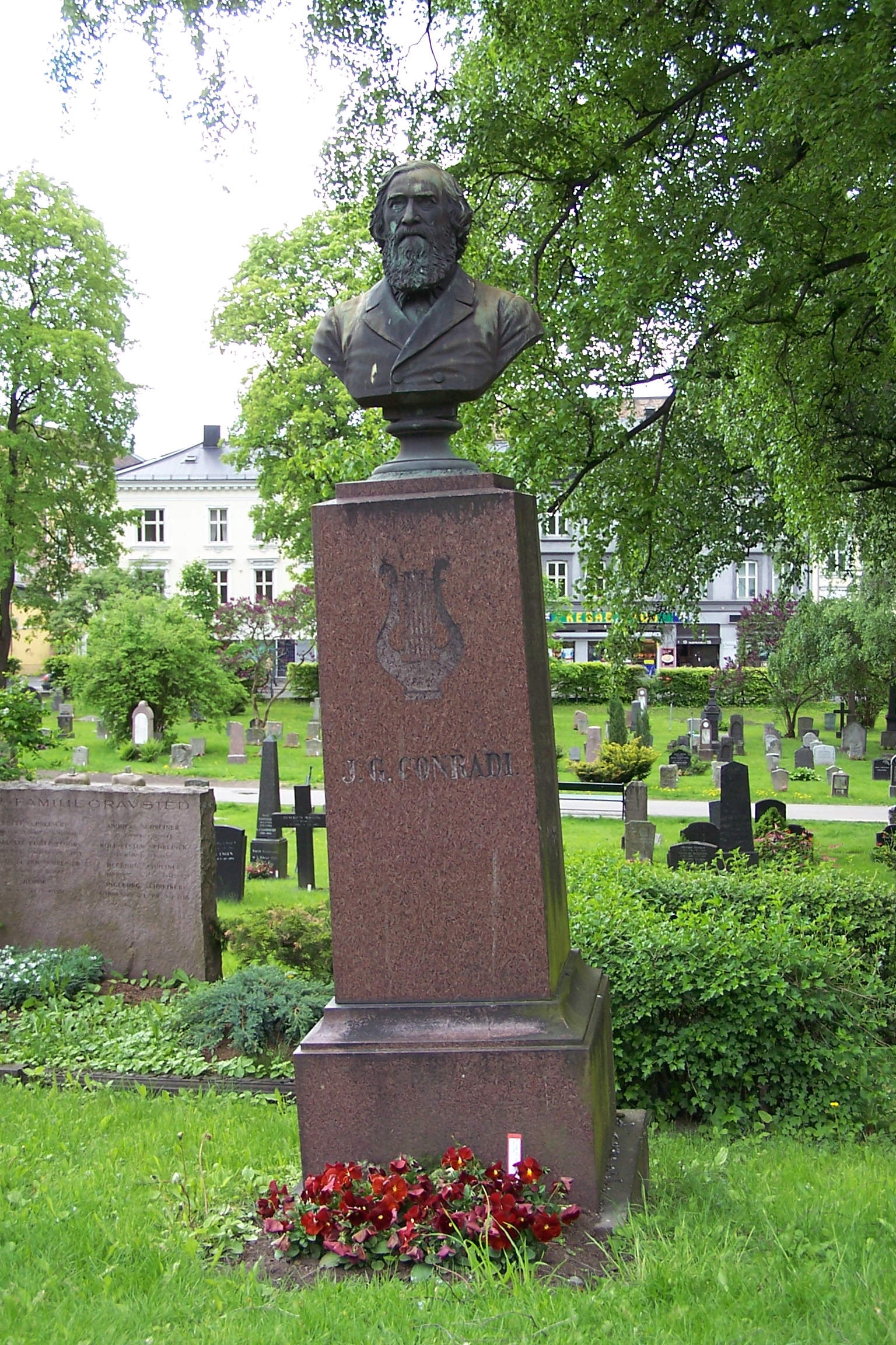 Tomb of Johan Gottfried Conradi (1820-1896), composer, at Vår Frelsers gravlund, Oslo. Bust from 1902 by Carl Ludvig Jacobsen.